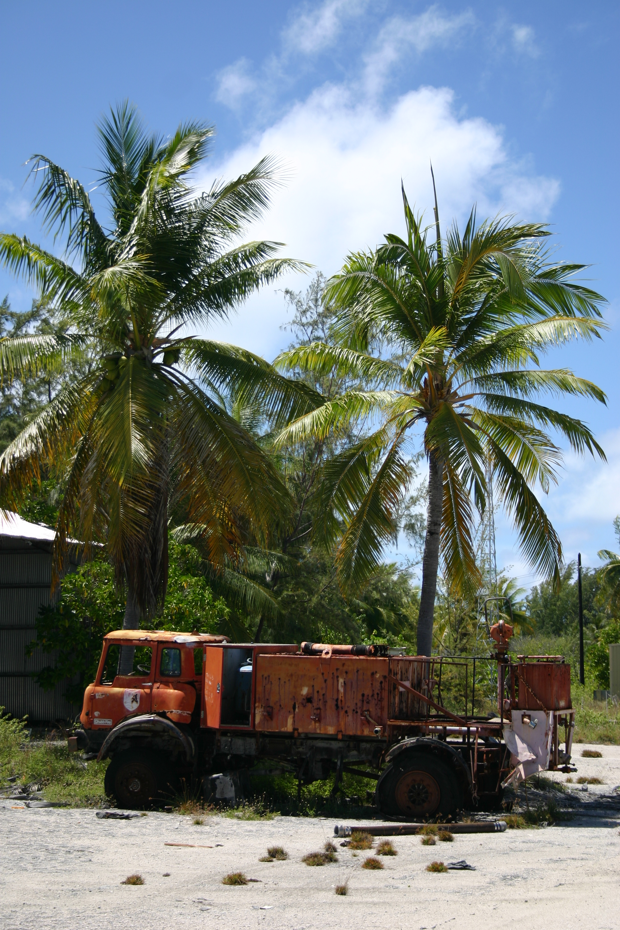 Rusting fire truck on Kanton Island, Phoenix Islands, Kiribati